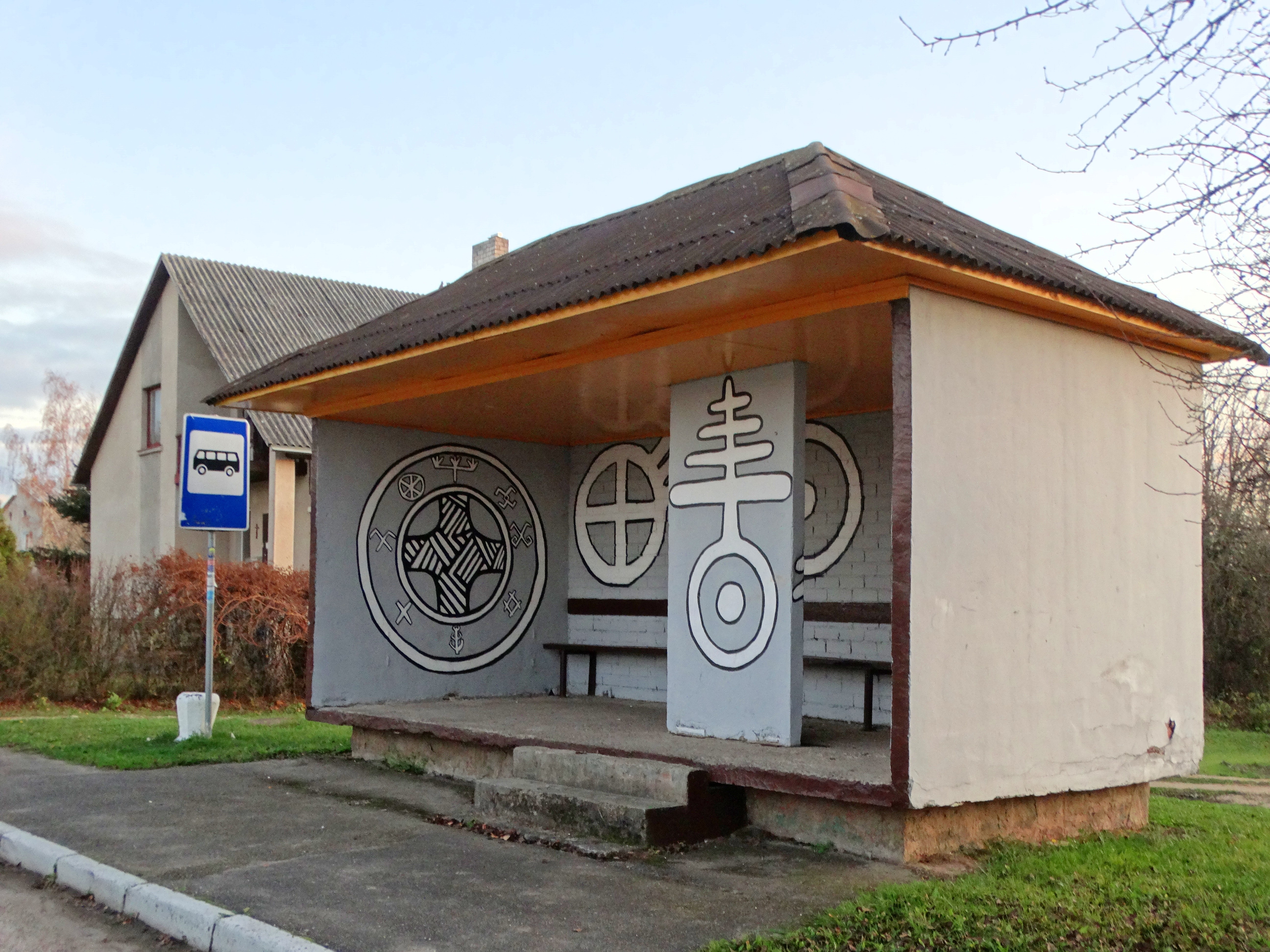 Punia, bus stop, Alytus district, Lithuania